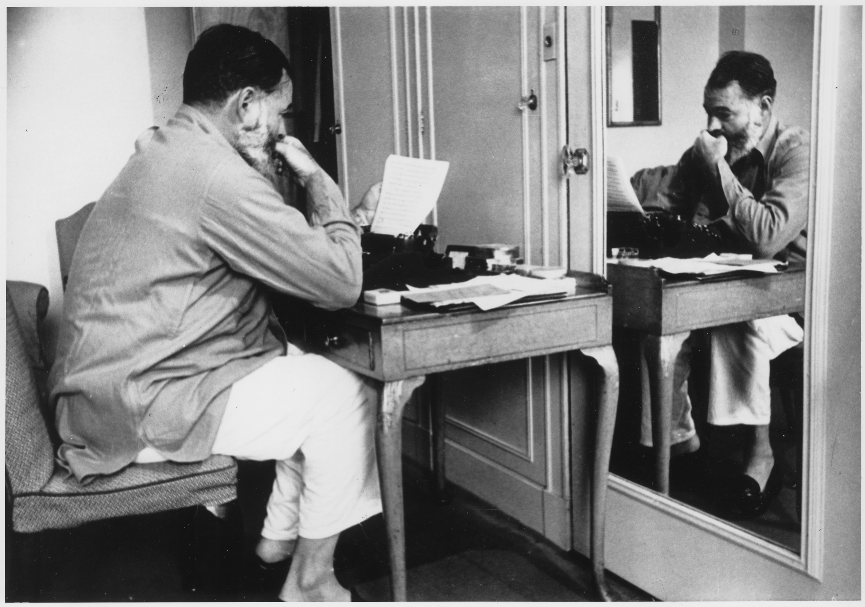 Scope and content: Photograph of Ernest Hemingway sitting at desk writing while at the Dorchester Hotel in London, England.